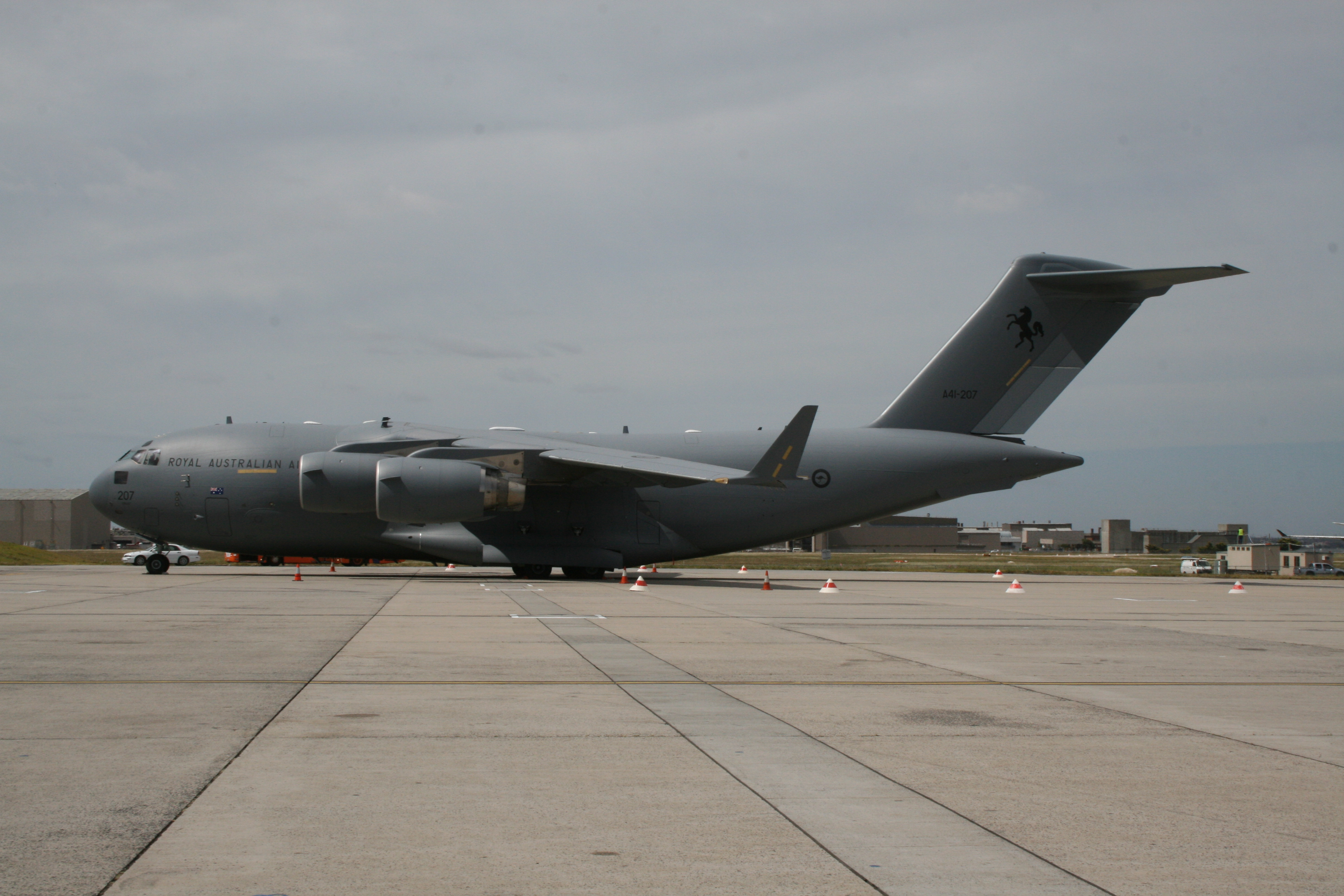 A Boeing C-17 Globemaster III of the Royal Australian Air Force parked at Melbourne Airport. Digital photo of A41-207 taken by YSSYguy on 15 January 2009 and uploaded for use in the No. 36 Squadron RAAF article.